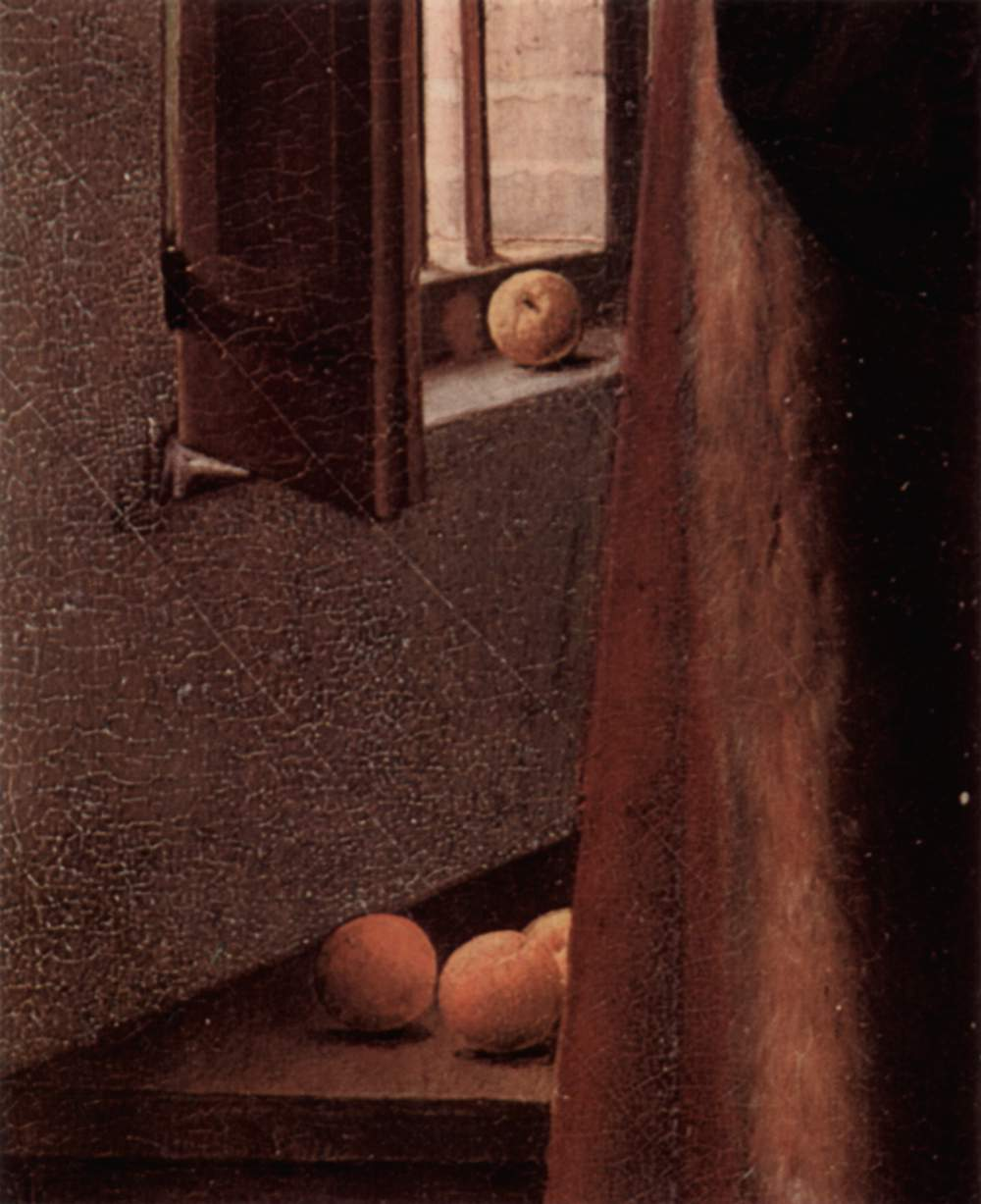 Crop of the painting The Arnolfini Portrait